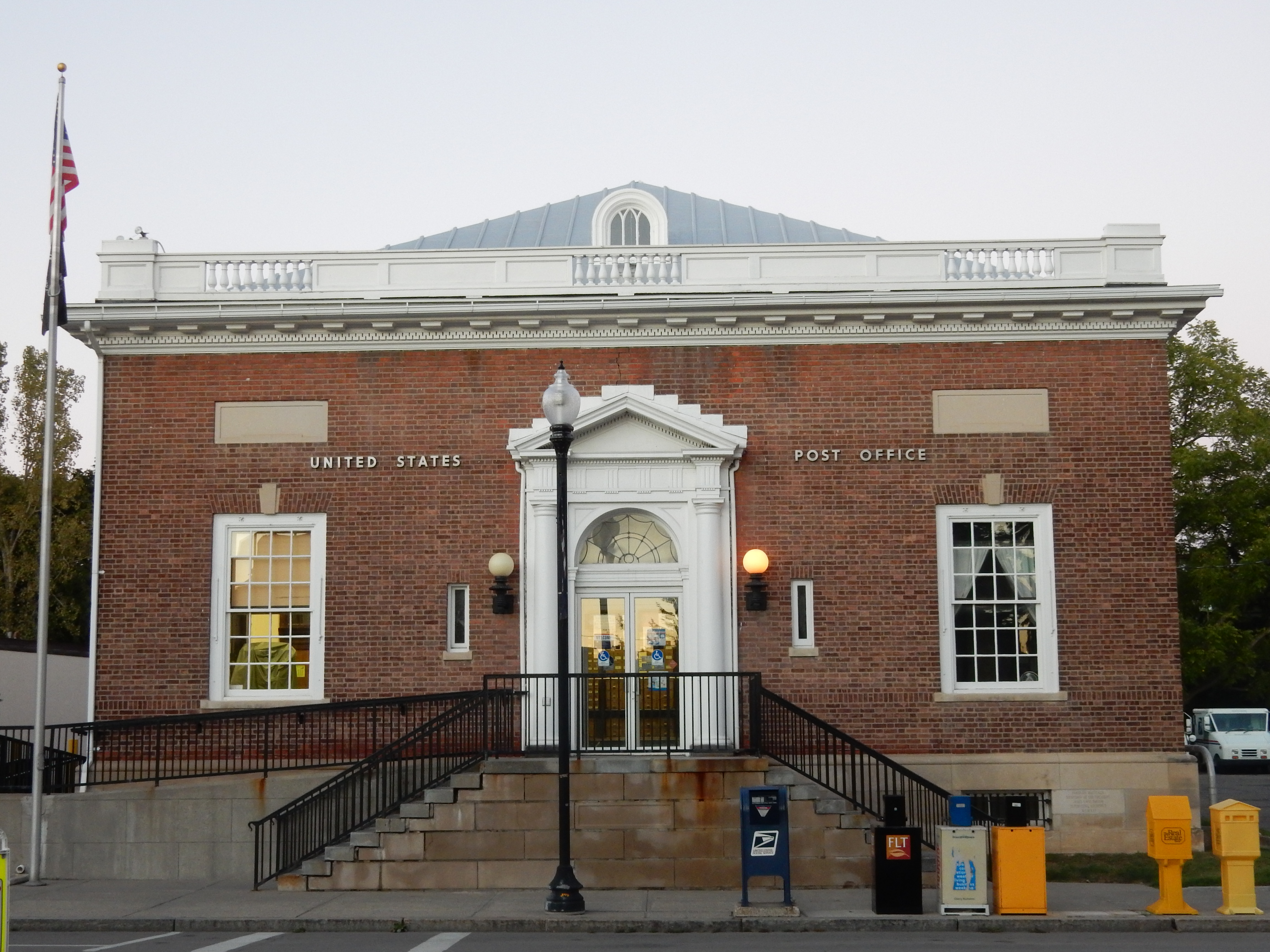 US Post Office-Penn Yan is a historic post office building located at Penn Yan in Yates County, New York. Exterior, view from Main St.